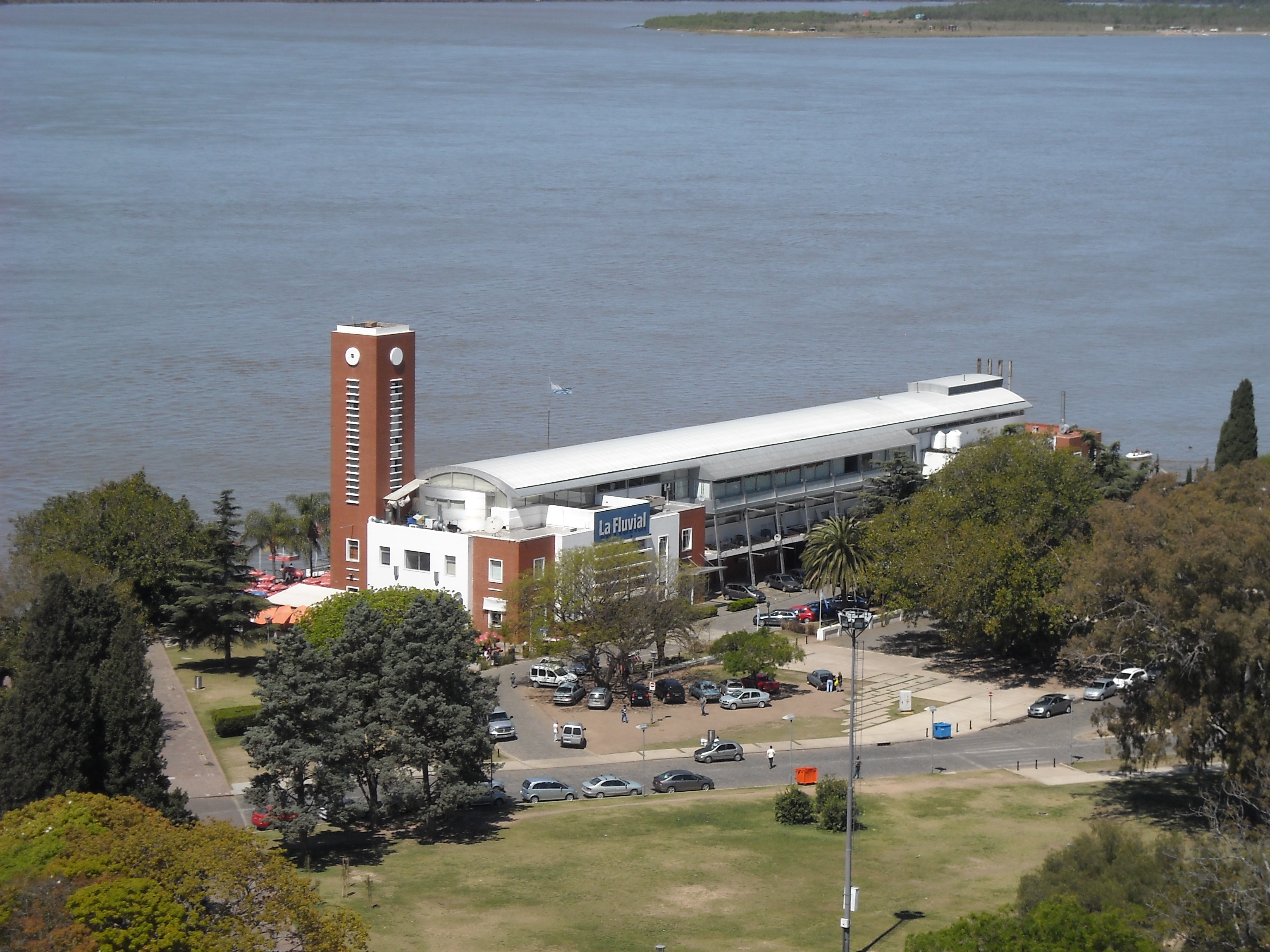 The Rosario Riverboat Terminal, originally inaugurated in 1939 and reinaugurated with a 10,000 m² addition in 1999.